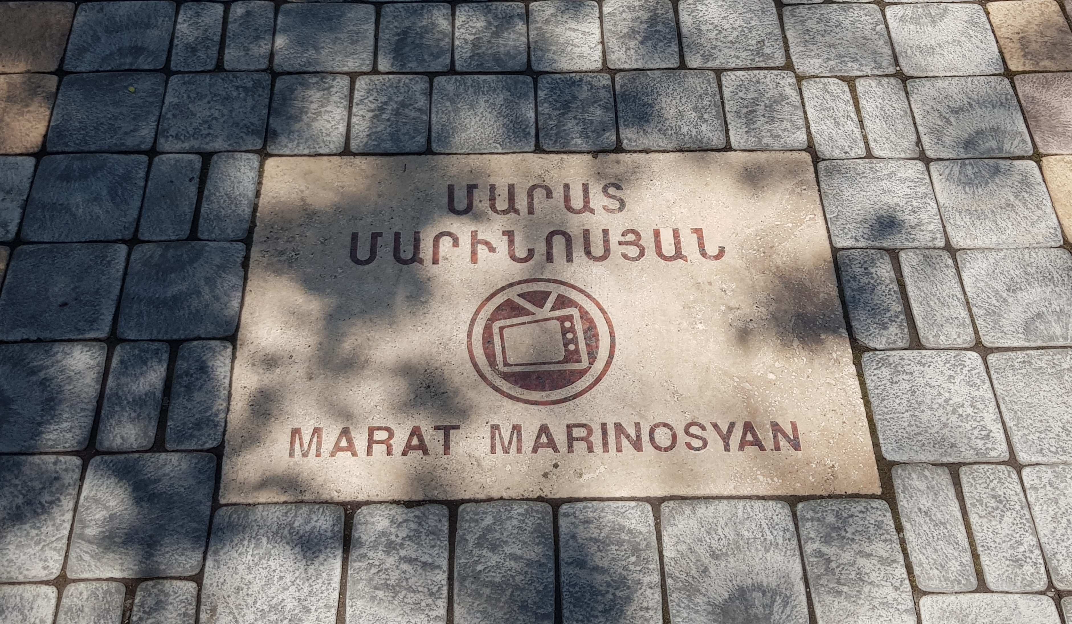 Alley of Devotees, Yerevan